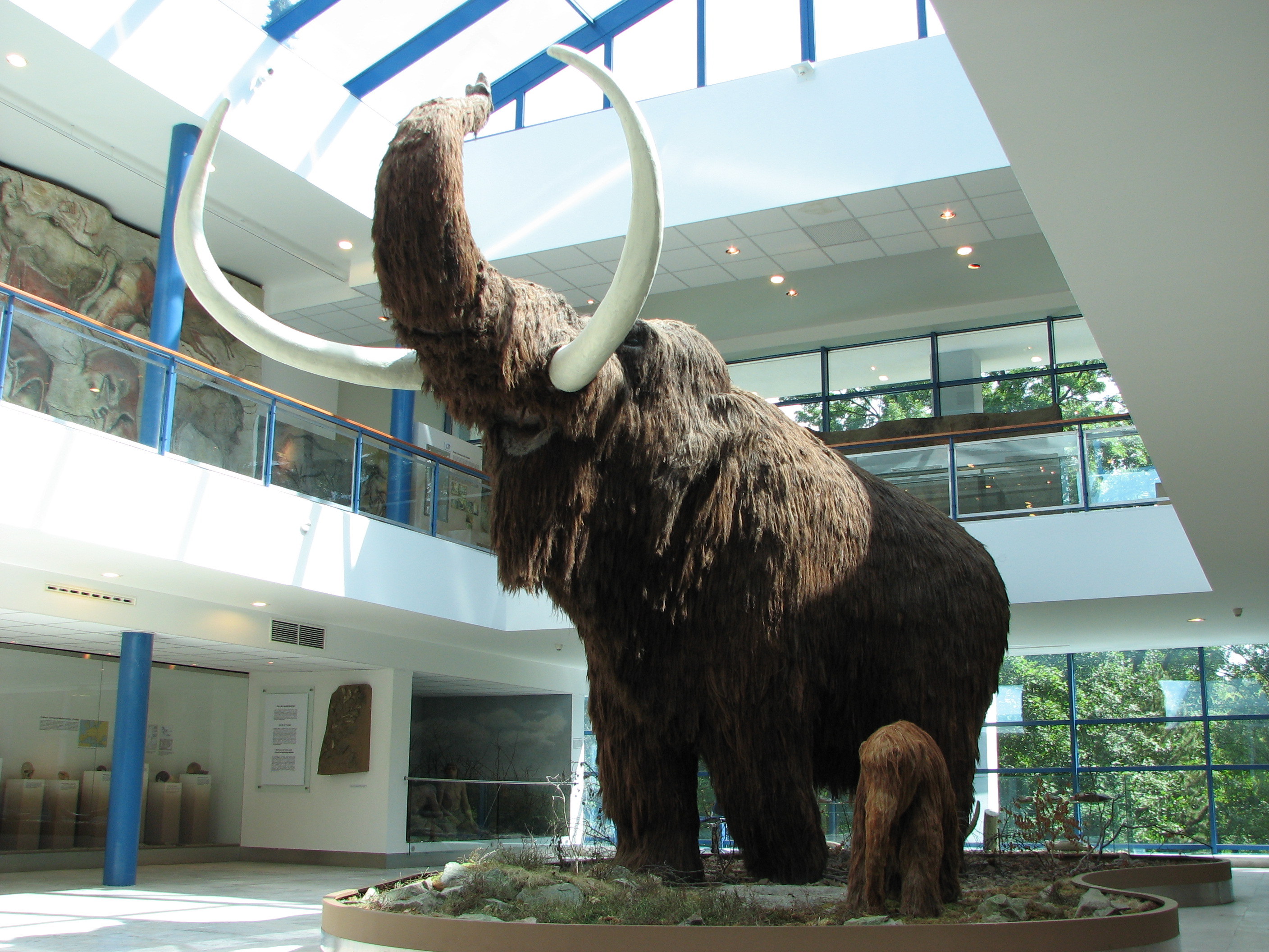 A lifesize model of a Woolly Mammoth in the Brno museum Anthropos. Since the museum's reconstruction there is also a model of a baby Woolly Mammoth.